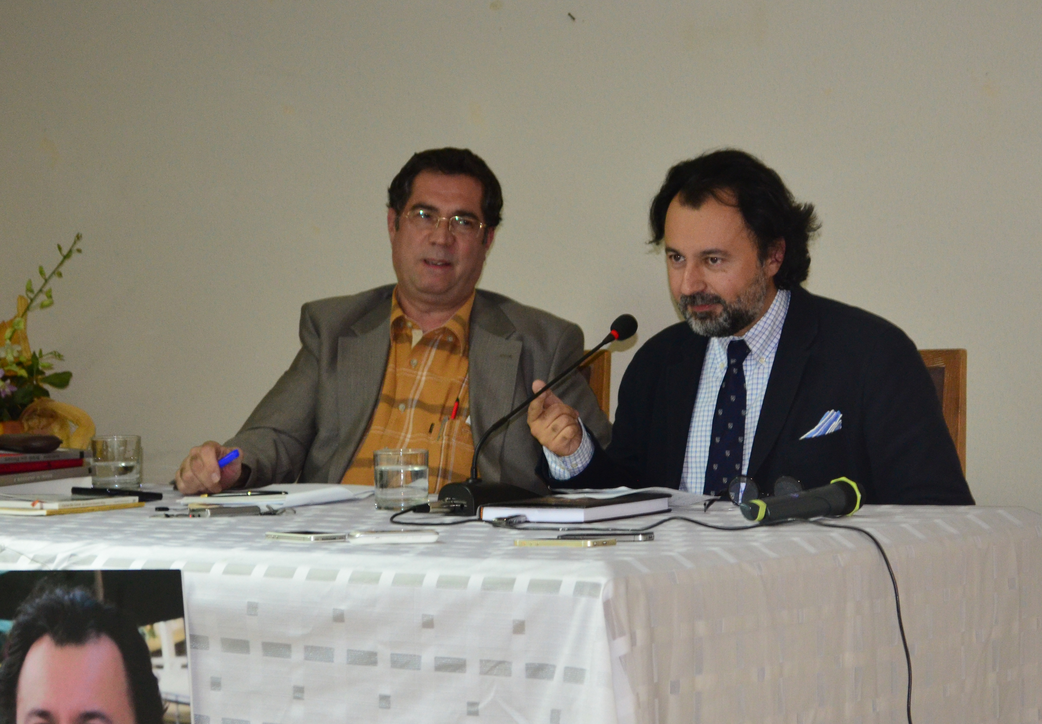 Touraj Daryaee and Ali Dehbashi